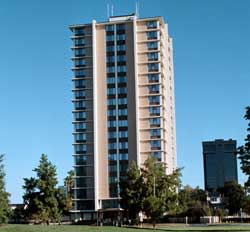 Sunvilla Tower is an apartment complex owned by Missouri State University, located in downtown Springfield, Missouri